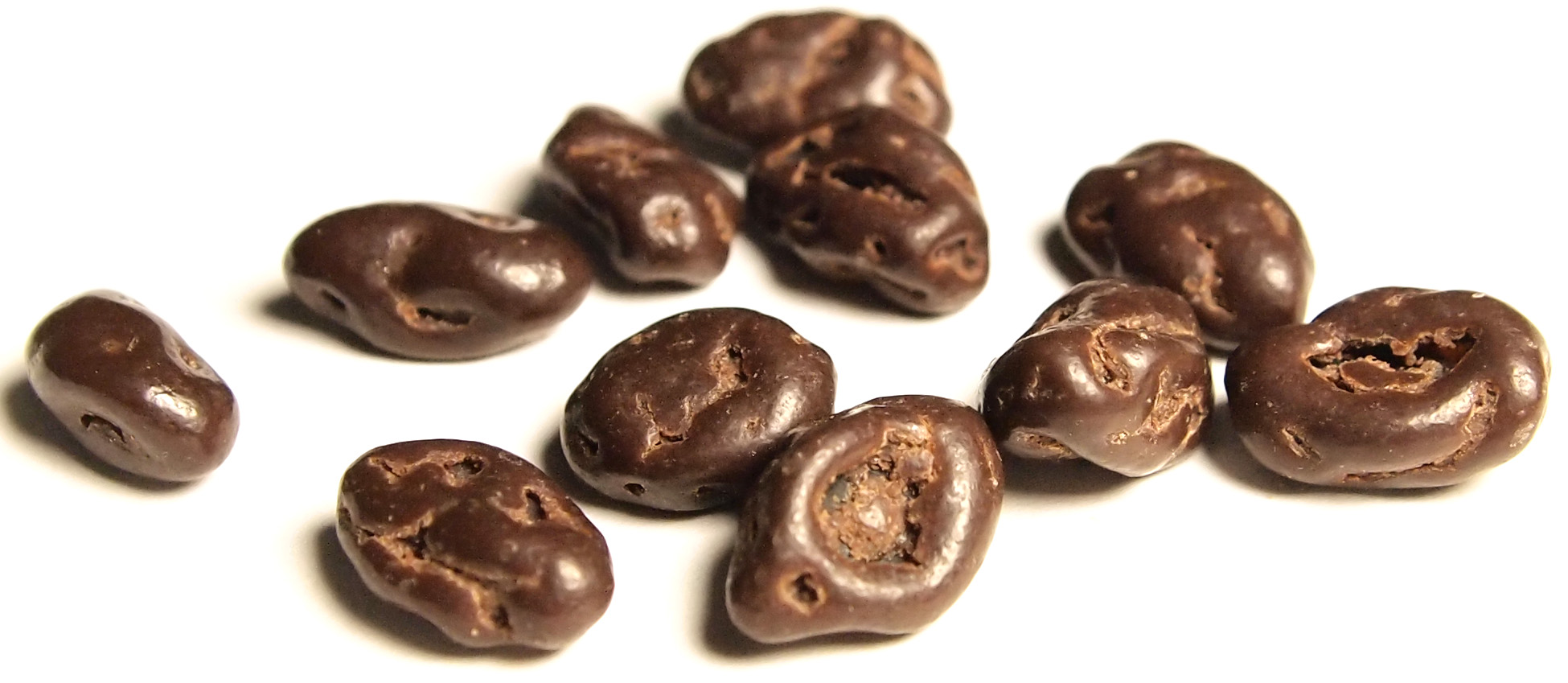 Dark chocolate-covered raisins with name "Smoothie Tumma Suklaarusina" by Panda.